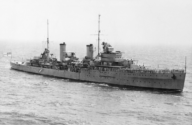 AWM Caption: Aerial starboard bow view of the cruiser HMAS Sydney (II) (ex HMS Phaeton). Note the spar projecting forward of the bridge and single 4-inch AA guns amidships, which distinguished the Sydney from her two sisters. Her Seagull Amphibian is embarked.